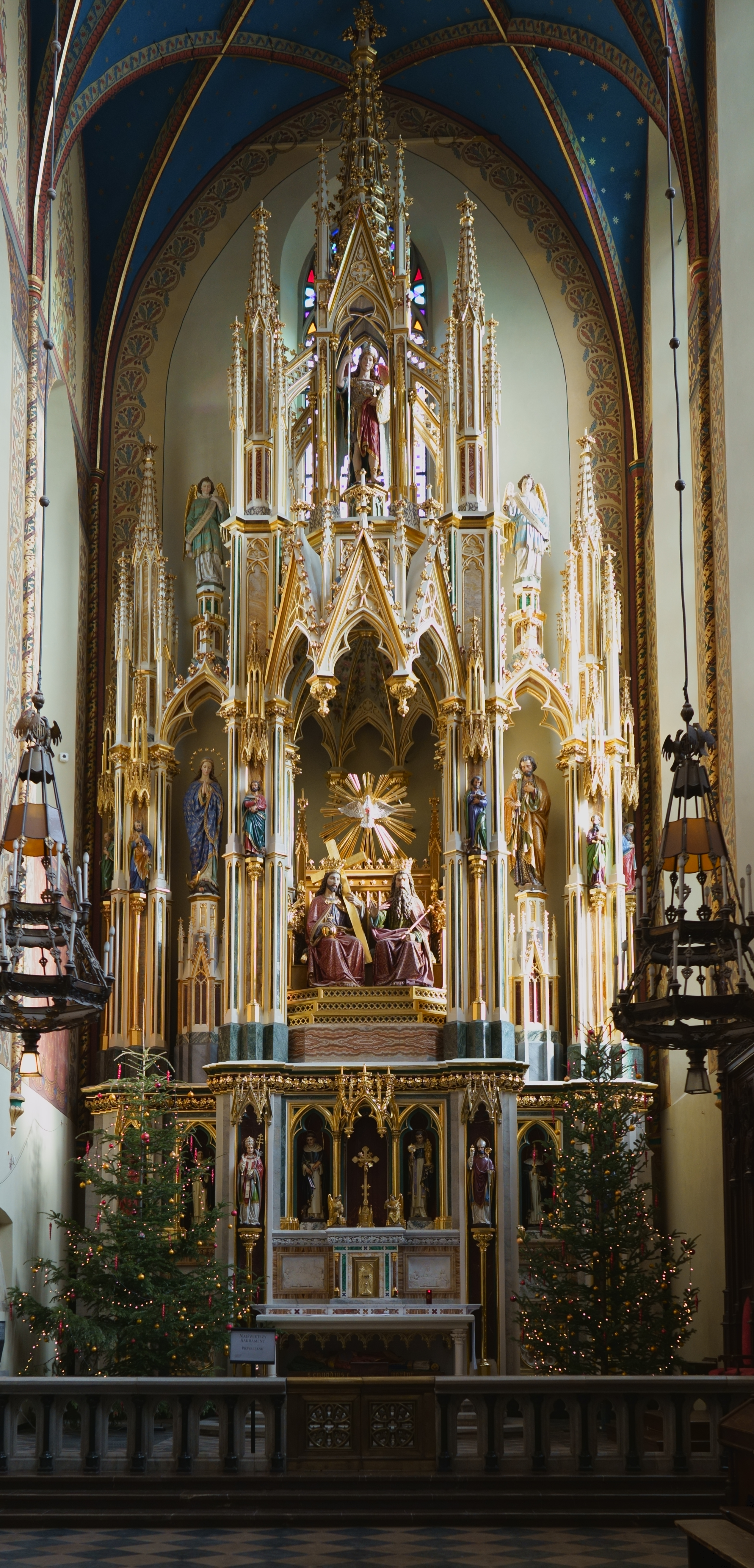 Altar in the Dominicans Trinity Church in Kraków, Poland